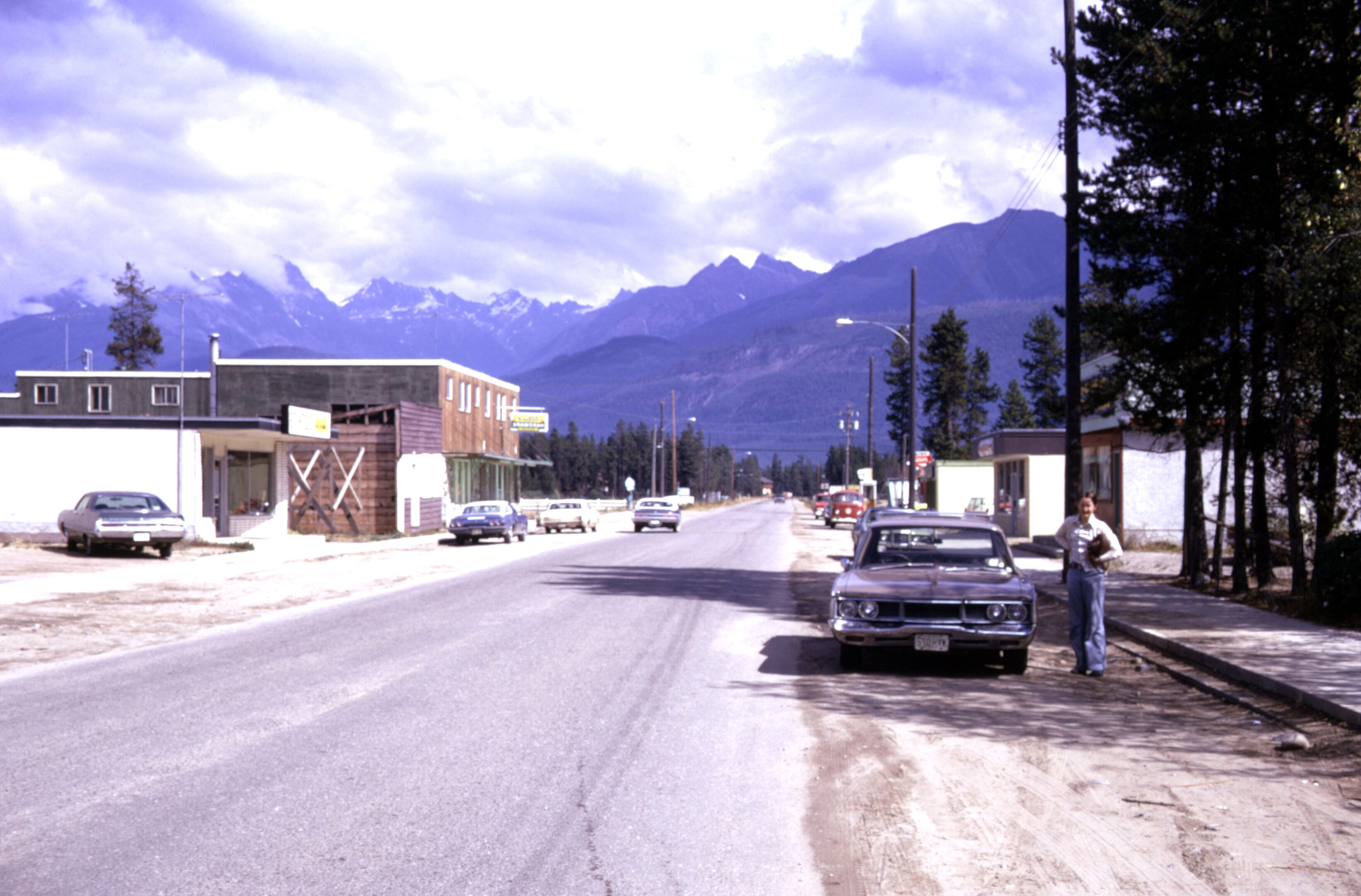 Valemount, British Columbia, in August 1974.